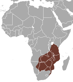 Lesser Red Musk Shrew (Crocidura hirta) range